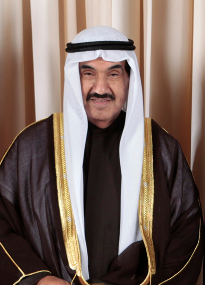 Nasser Mohammed Al-Ahmed Al-Sabah